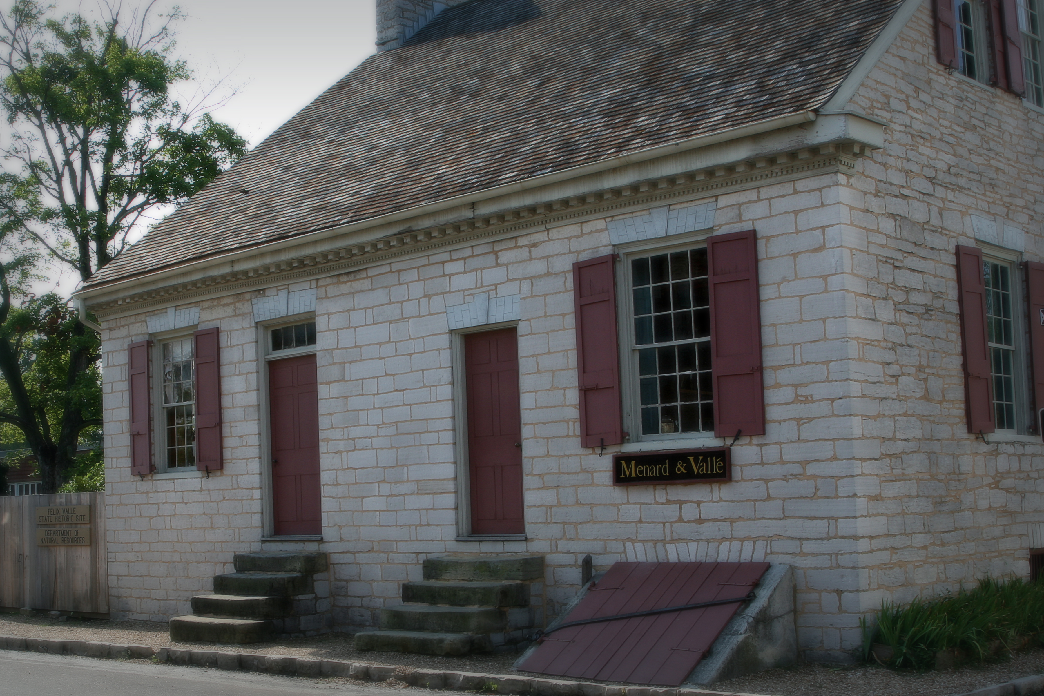 This is a photograph of Menard-Valle House/Store on Merchant Street in Ste. Geneviève, Missouri.